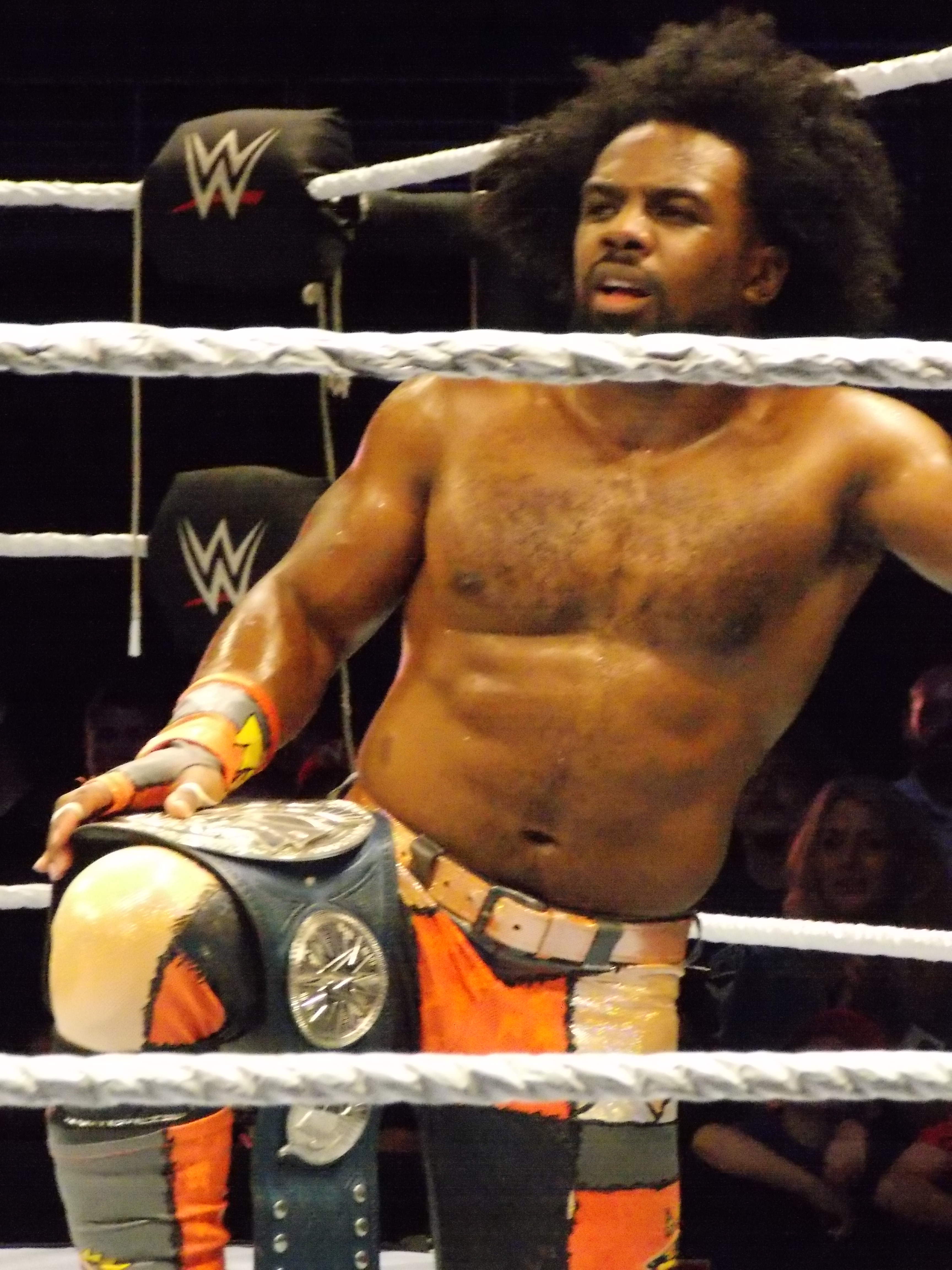 Xavier Woods at a WWE Live Event House Show in Omaha, Nebraska, USA on Sunday, August 18, 2019